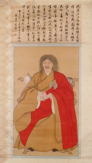 Yuan Shin, bhikkhu of the Ming Dynasty.